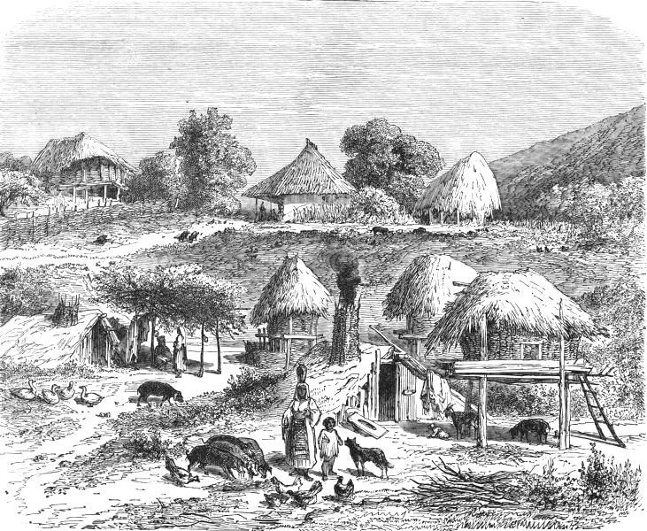 A şatră, or village peopled by members of the Romani community of Romania. "Un village des Tsiganes chrétiens"